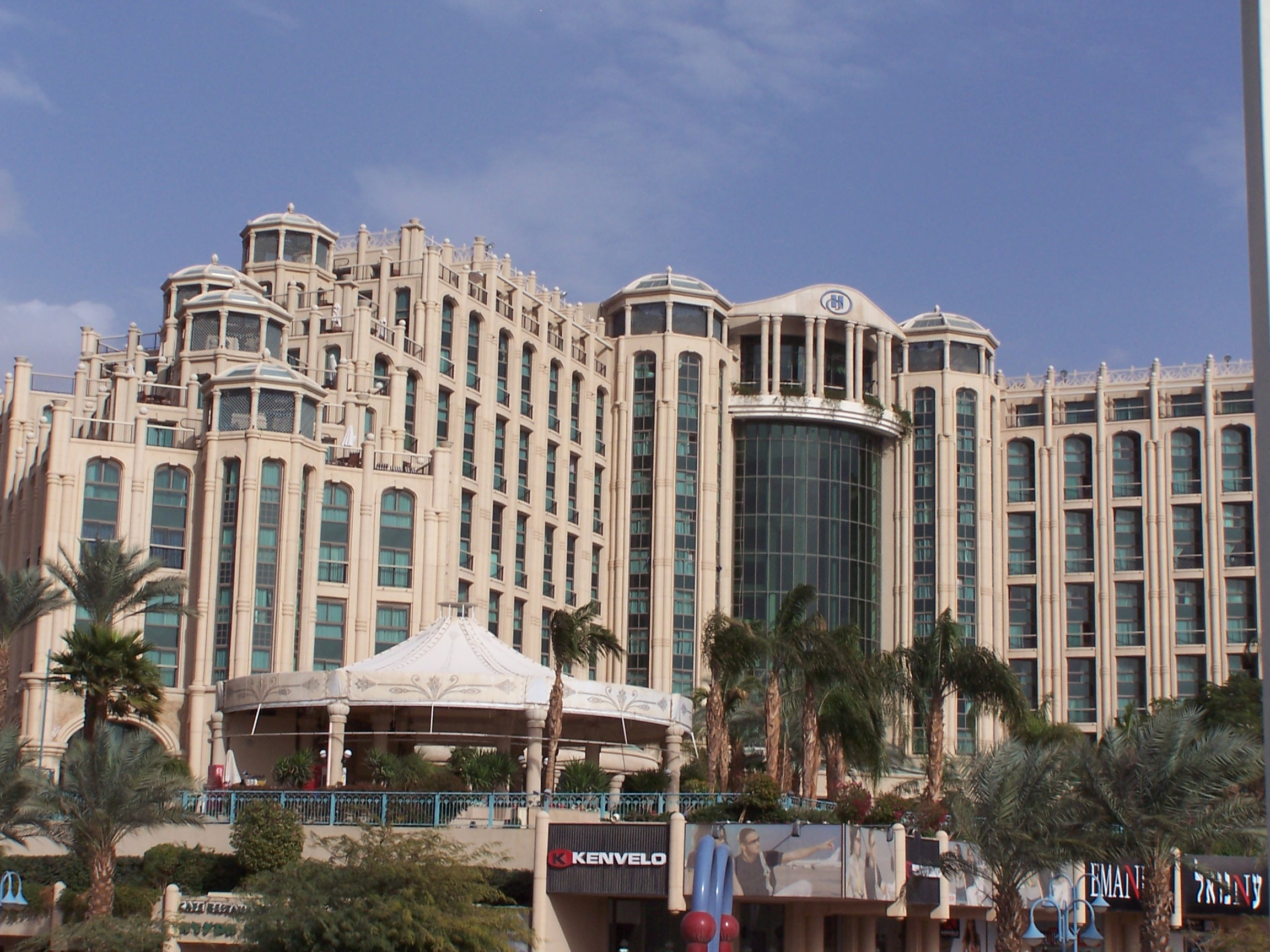 Hilton Queen of Sheeba Hotel in Eilat, Israel